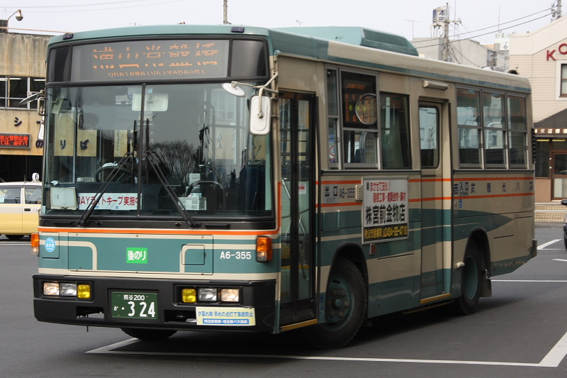 Seibu Kanko Bus's route bus (Car No.A6-355 / Nissan Diesel KC-RM211ESN-kai / FHI 8E body) at Chichibu Station, Chichibu, Saitama, Japan